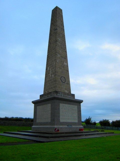 County Antrim War Memorial (Knockagh Monument) The County Antrim War Memorial or Knockagh Monument. It is located top of Knockagh Hill, above Greenisland in County Antrim. Visible from miles around, its location also hosts panoramic views of Belfast Lough and the city of Belfast itself. See Knockagh_Monument and for more information on when and why it was constructed.